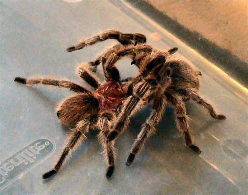 Mating Rose Hair Tarantulas, Grammostola rosea. The male is on the left.